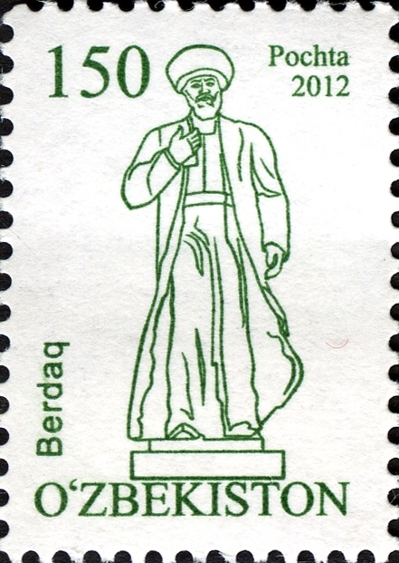 Stamps of Uzbekistan, 2012